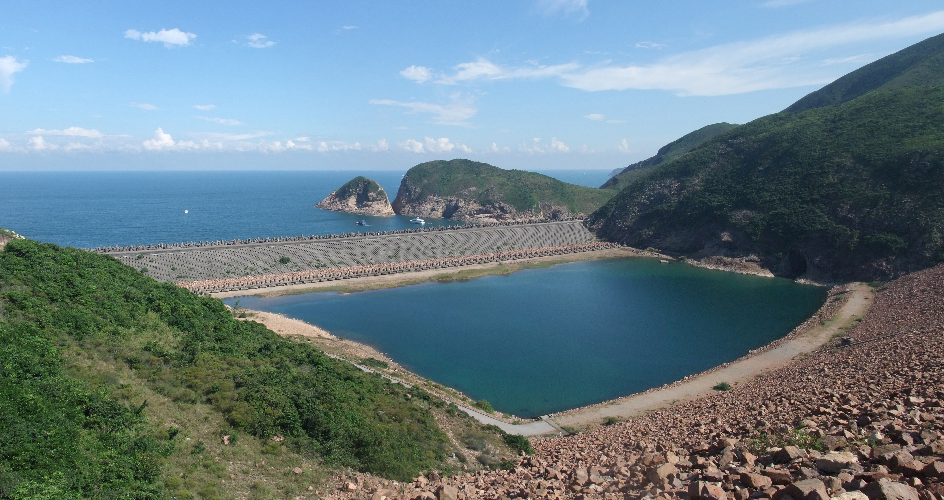 Panoramic photo of East Dam, High Island Reservoir, combined from 2777966815 and 2778833712